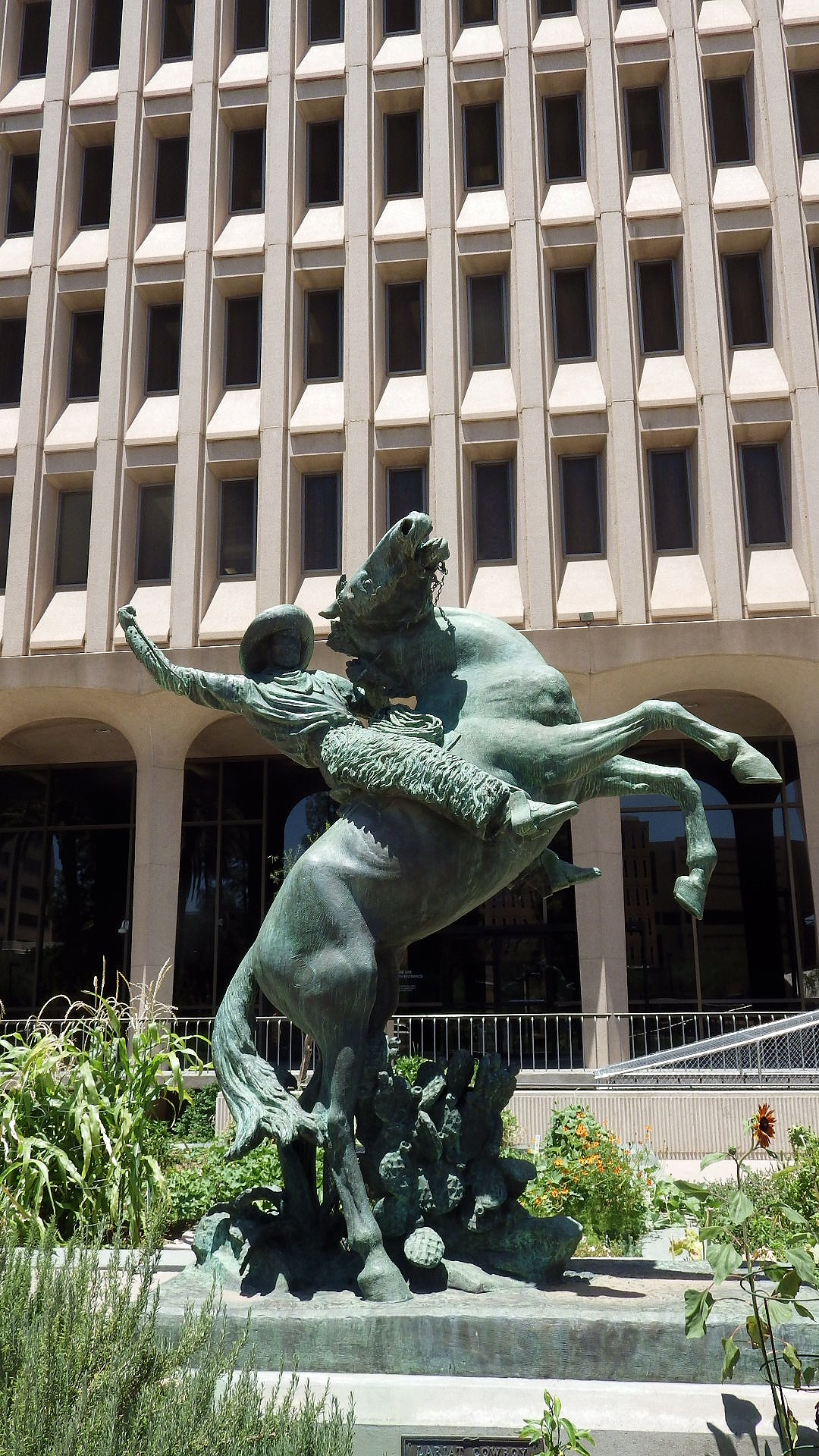 Phoenix AZ